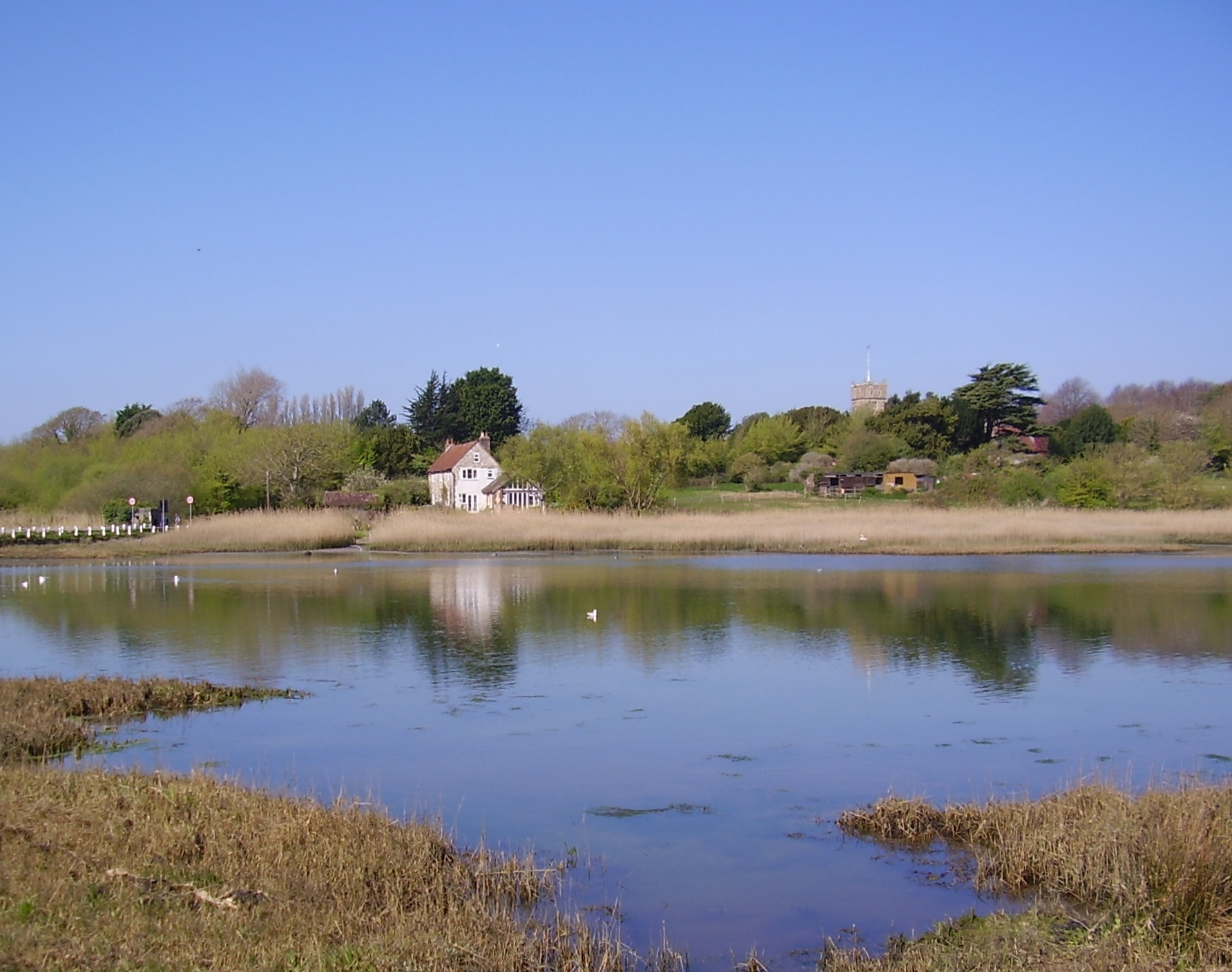 The River Yar (Western Yar) at Freshwater, Isle of Wight